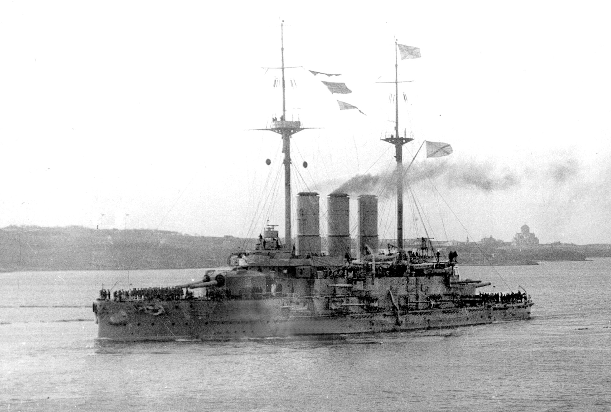 Imperial Russian battleship Evstafii, 1914.